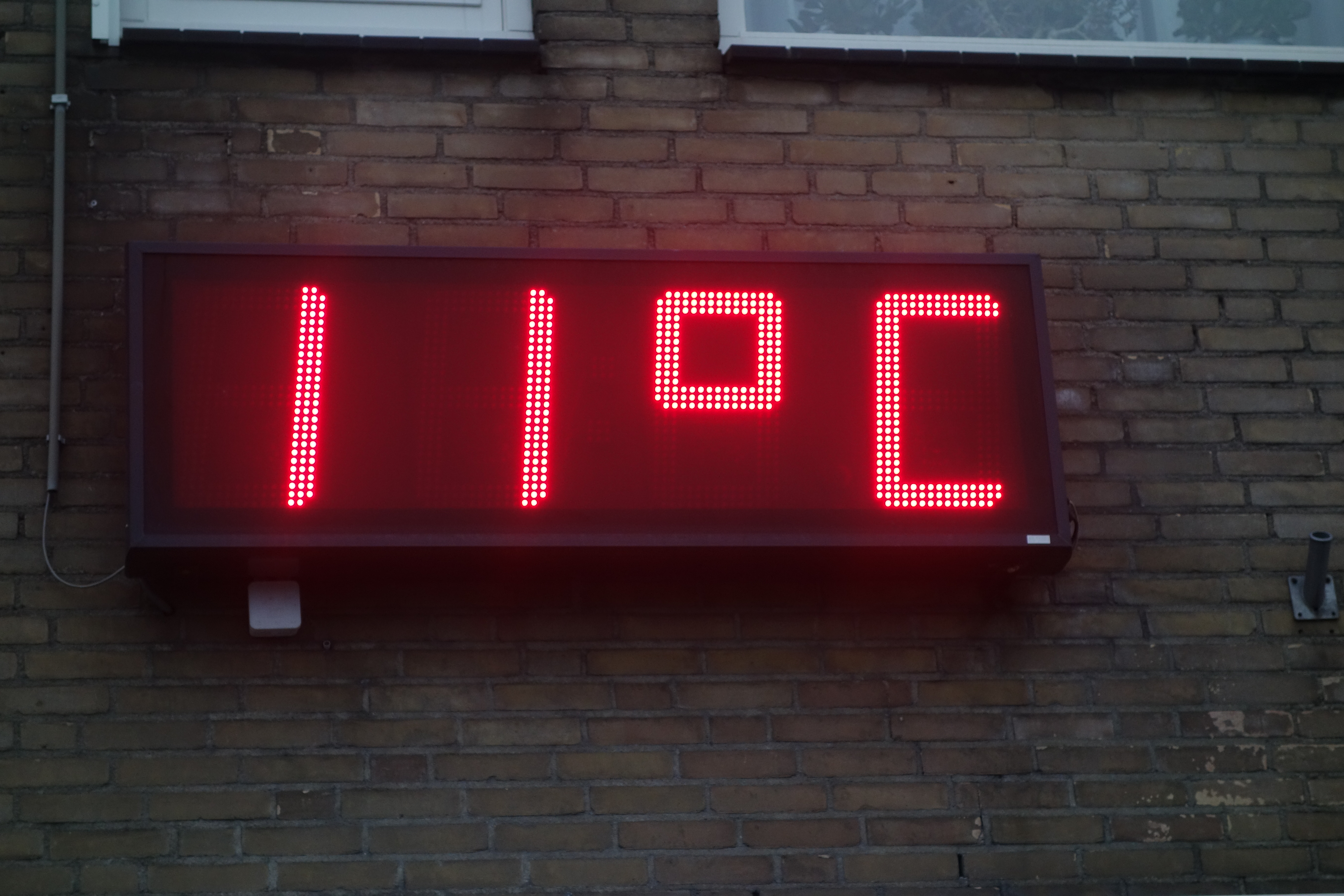 Temperature 11 Celsius on a digital clock in Wateringen (the Netherlands)